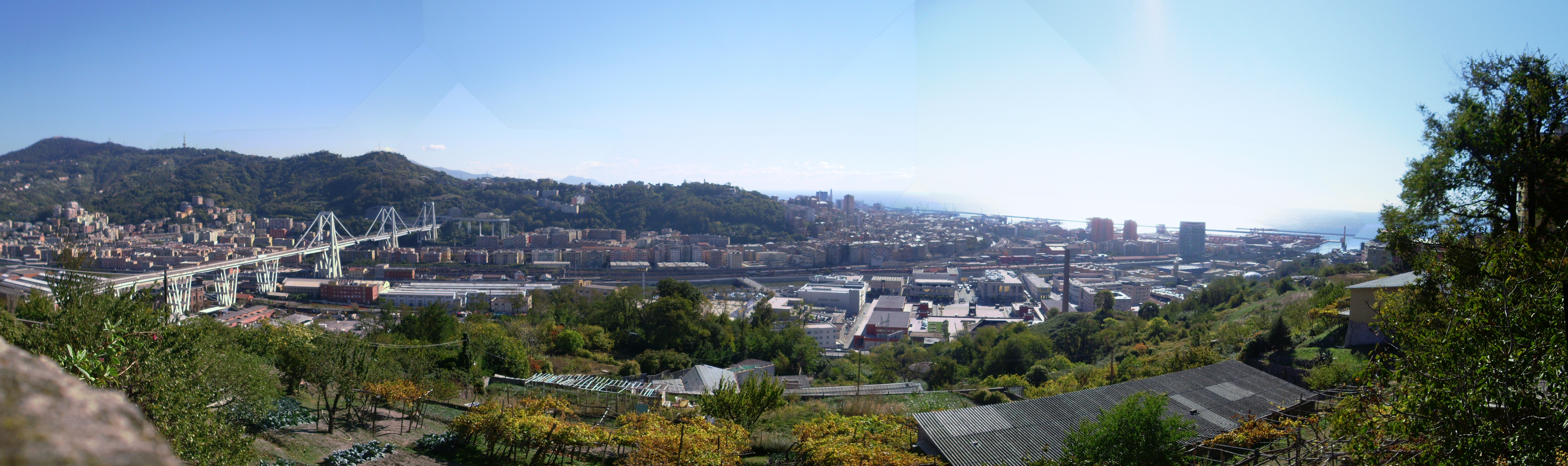 Houses in Val Polcevera valley near airport and the harbour of Genoa at Mediterranean Sea (blue in the right of the photo), seen from Coronata hill. In the left: Polcevera viaduct with Turin–Genoa railway under the bridge.